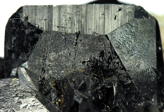 Ferberite Locality: Tazna Mine (Tasna Mine; Tazna-Rosario Mine), Cerro Tazna, Atocha-Quechisla District, Nor Chichas Province, Potosí Department, Bolivia (Locality at ) Size: 12.0 x 8.8 x 6.7 cm. This is a very impressive, display specimen of Ferberite from Bolivia. The piece features several sharp, lustrous, aesthetic, jet-black crystals measuring up to 4.0 cm forming a beautiful display specimen. The crystals are sitting on bladed grey Arsenopyrite matrix with a few small gem Quartz crystals. These Bolivian Ferberites are often underrated and stand up well against any other Ferberites from China or Panasqueira. This piece was from the famous find in 1999 at Tasna.